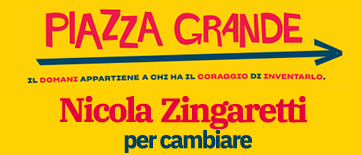 Piazza Grande logo.